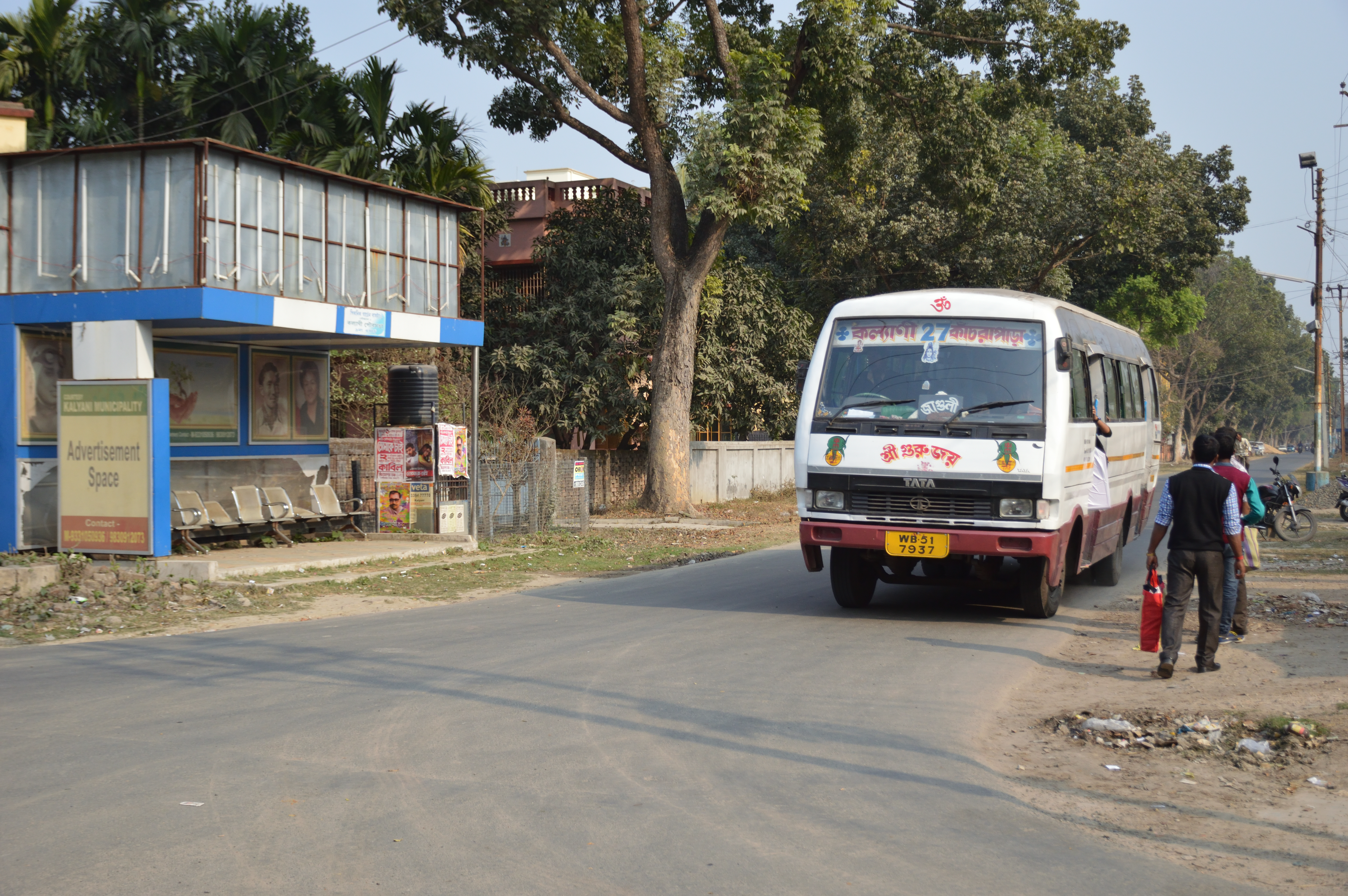 Photographed in Nadia district. Personality rights warningAlthough this work is freely licensed or in the public domain, the person(s) shown may have rights that legally restrict certain re-uses unless those depicted consent to such uses. In these cases, a model release or other evidence of consent could protect you from infringement claims.